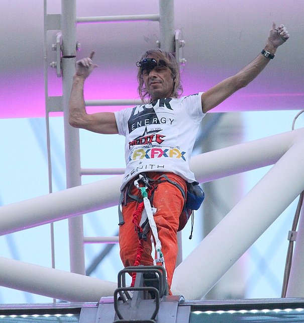 Alain Robert with his victory pose upon successfully scaling the Singapore Flyer.